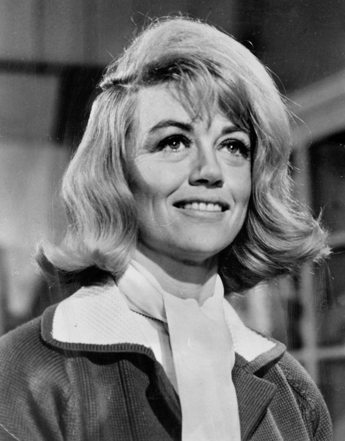 Photo of Dorothy Malone as Constance MacKenzie from the television program Peyton Place.